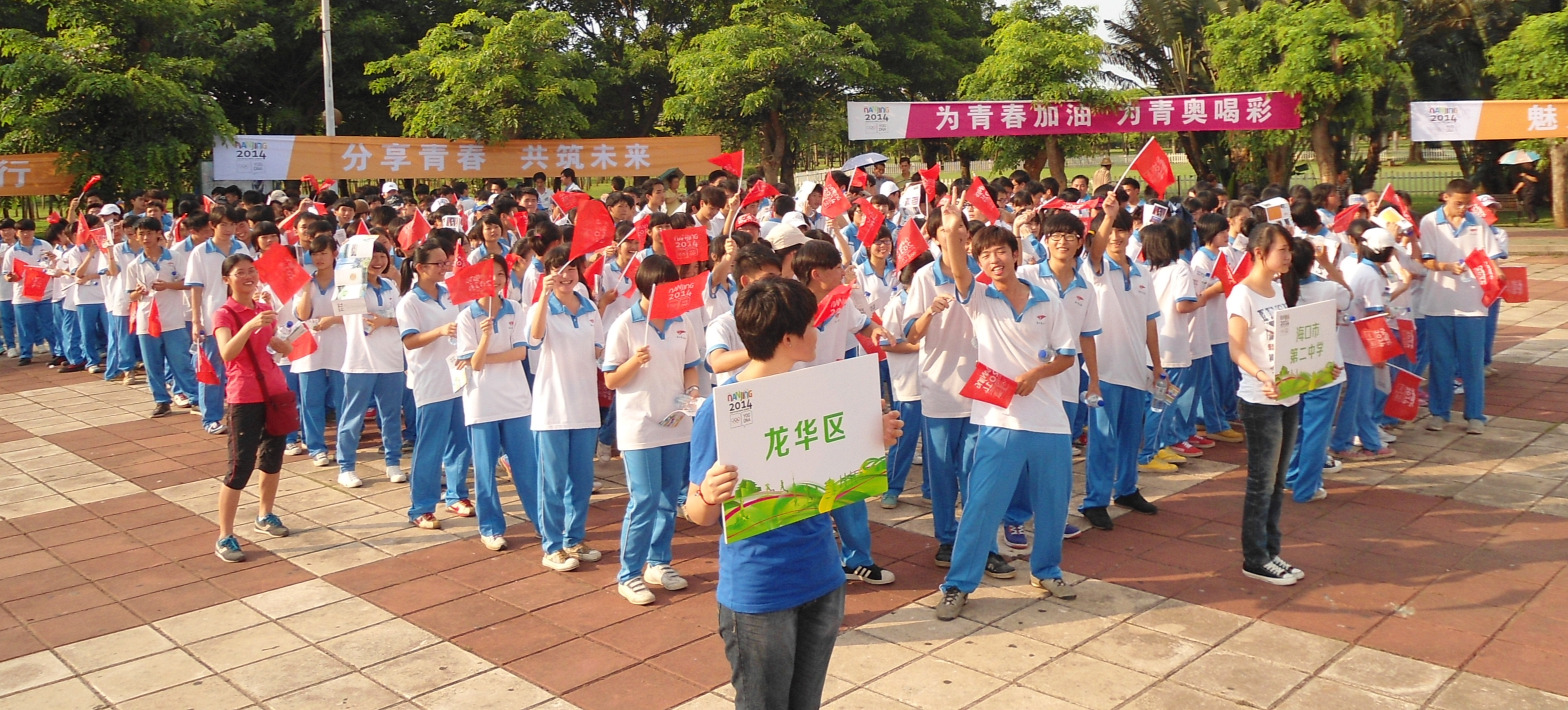 Students wearing school uniforms, Haikou City, Hainan Province, China